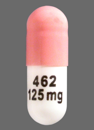 capsule of emend (aprepitant) 125mg